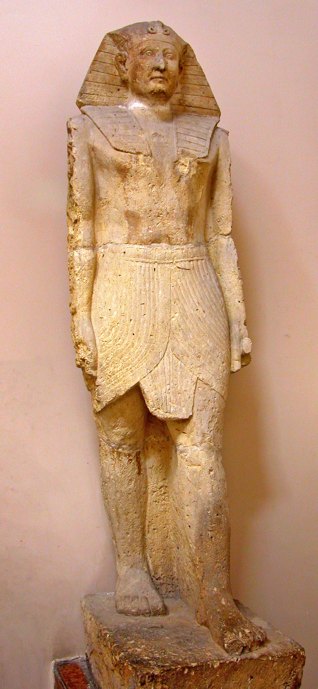 A limestone statue of king Ptolemy XII, father of Cleopatra VII. Found at the Temple of Crocodile, Fayoum. Greco-Roman Museum, Alexandria, Egypt